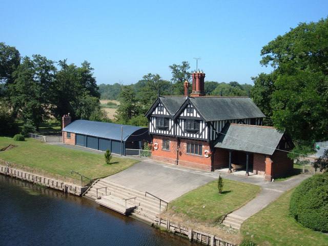 Lodge, River Dee near Aldford View of the Lodge from the western end of Iron Bridge 60282